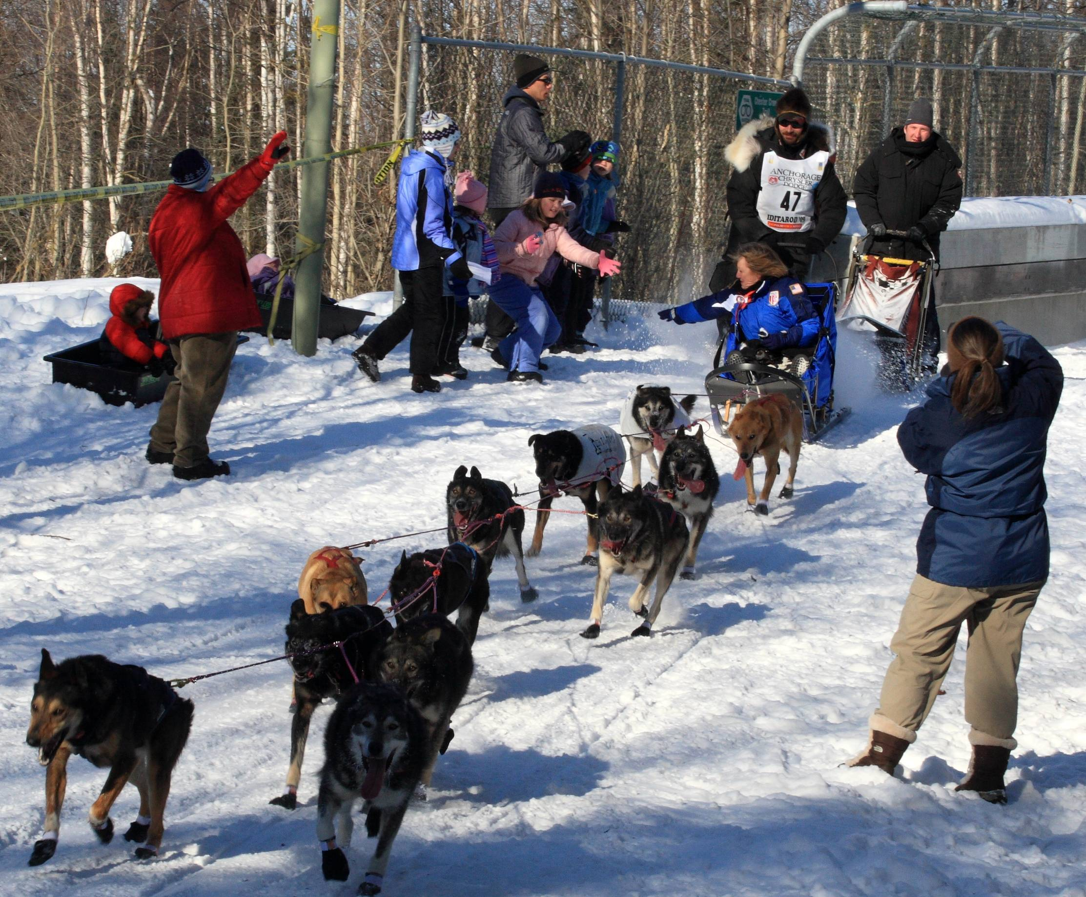 I took these photos on 8 March 2009 at the ceremonial start of the Iditarod sled dog race in Anchorage, Alaska. This was the 37th running of The Last Great Race. I get a thrill out of each race - the dogs were born to run and it is another thing that makes me proud to be an Alaskan! Note: for the ceremonial run the mushers have paying passengers - I think they are called Iditariders - these people bid on a chance to go on the ceremonial run. The actual Iditarod starts from Willow, Alaska, on the day after the ceremonial start, minus the Iditariders.